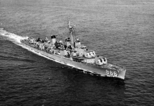 The U.S. Navy destroyer USS Cone (DD-866) underway at sea, circa in 1959.